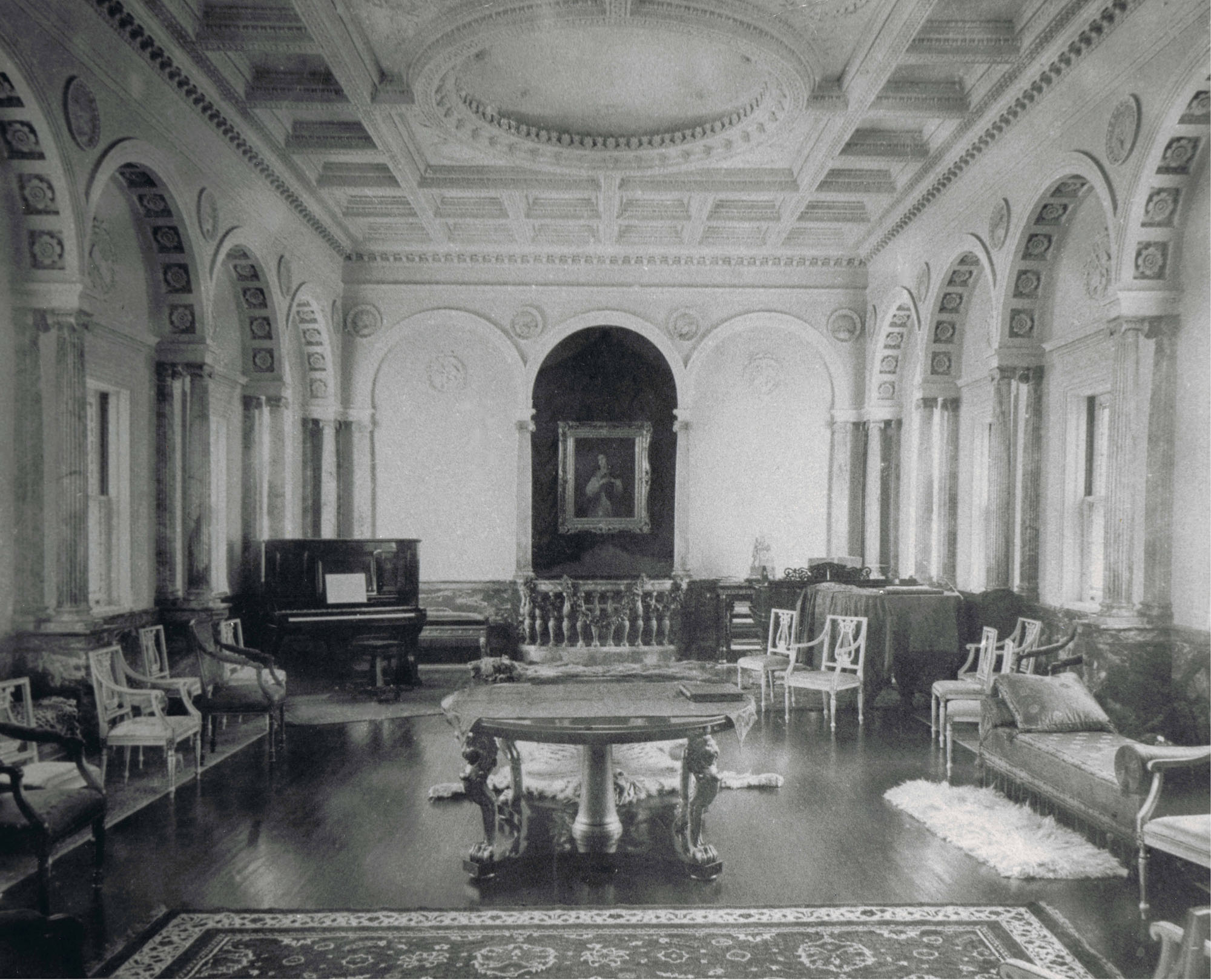 Mason family music room, Boston, MA, circa 1920